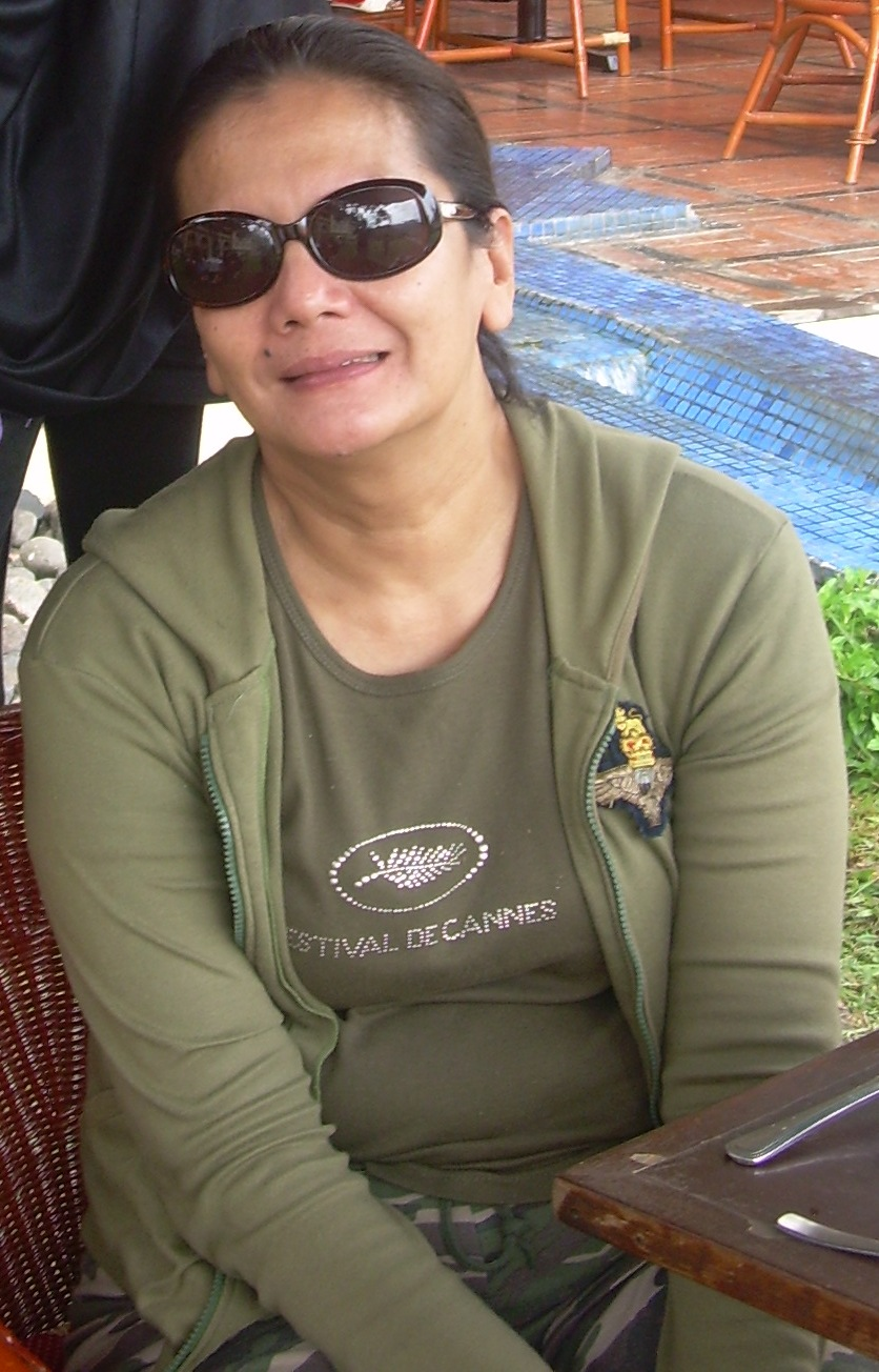 Christine Hakim, Indonesian actress.